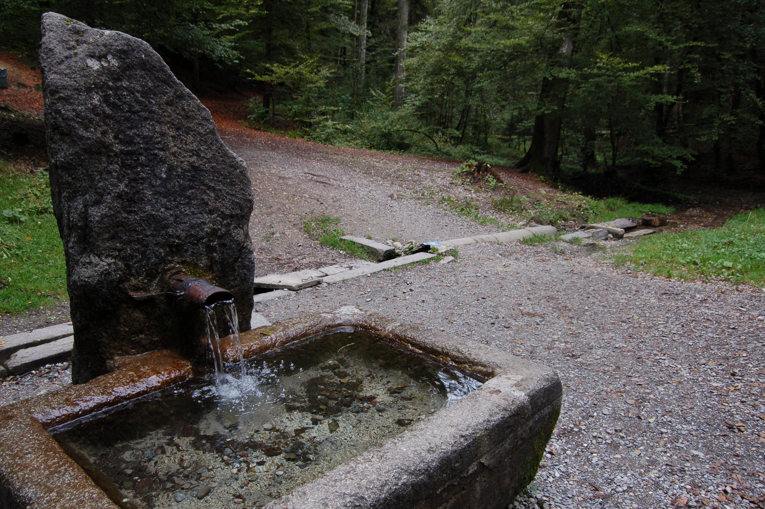 Glasbrunnen, a fountain in the middle of the Bremgarten-Forest in Berne, Switzerland